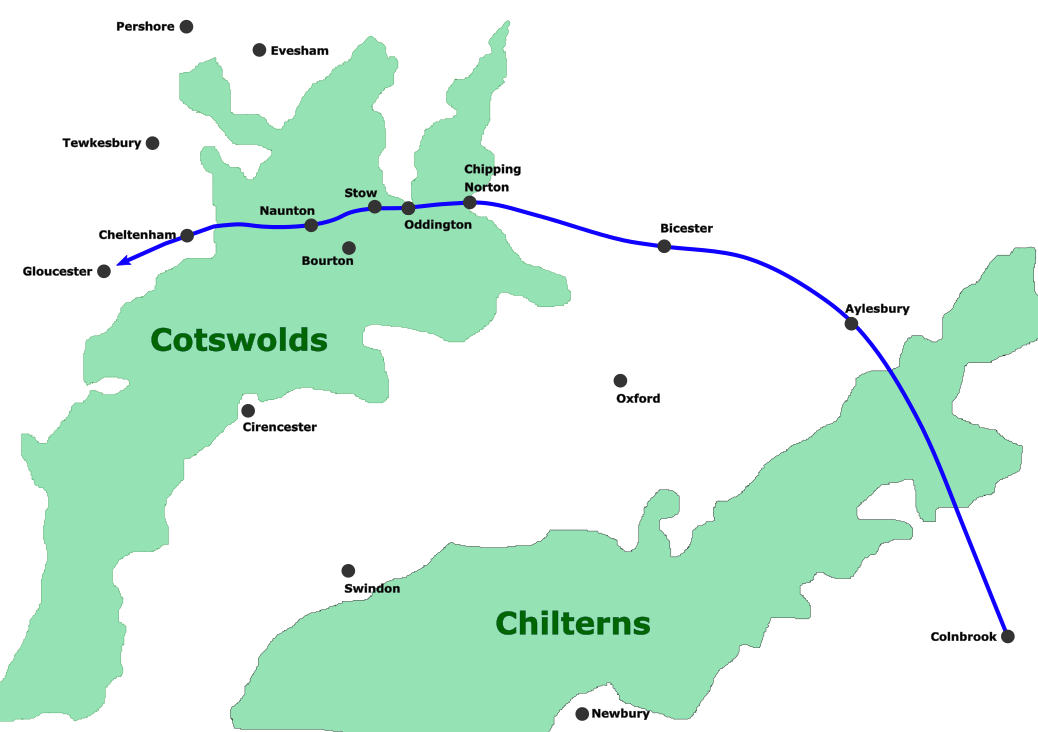 Route taken by Essex to relieve Gloucester in 1643